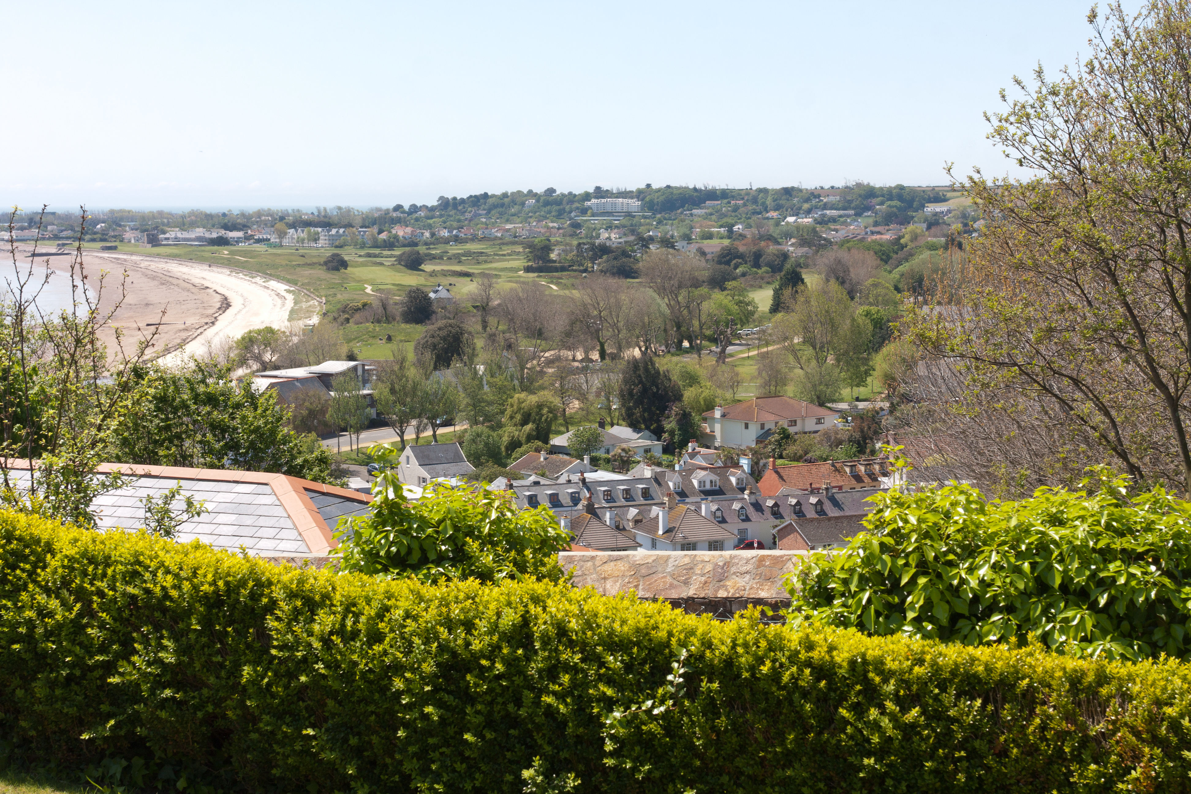 View from Gouray Church, Saint Martin, to Grouville, Jersey.